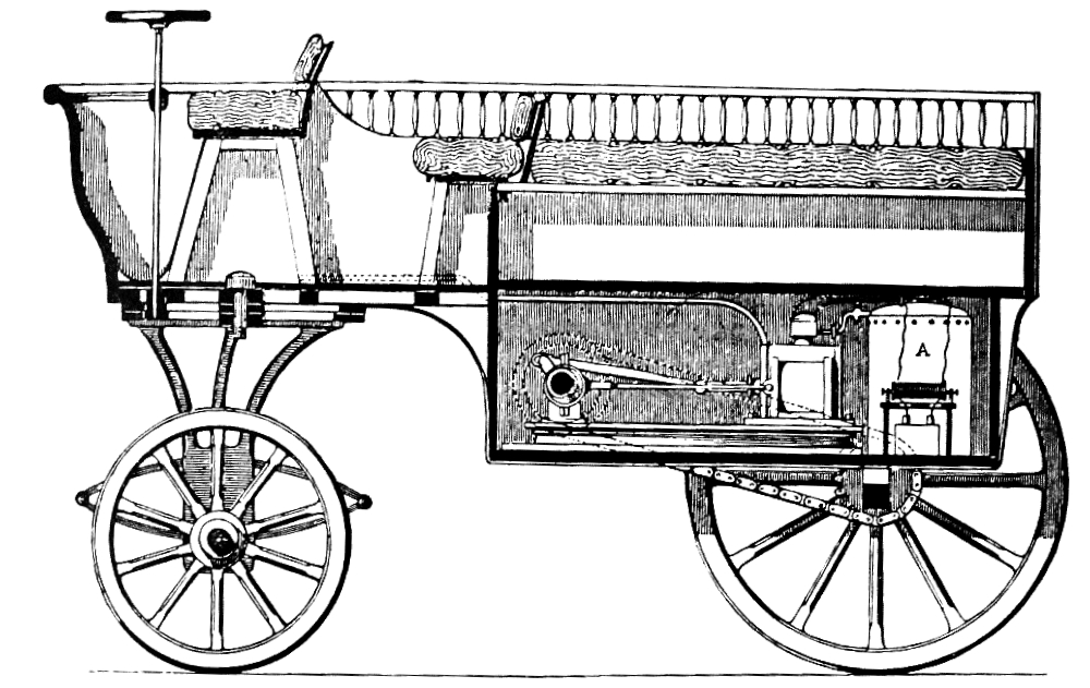 “Hippomobile” by Étienne Lenoir, c. 1860, contemporary depiction, published in Le Monde illustré (June 16th, 1860).